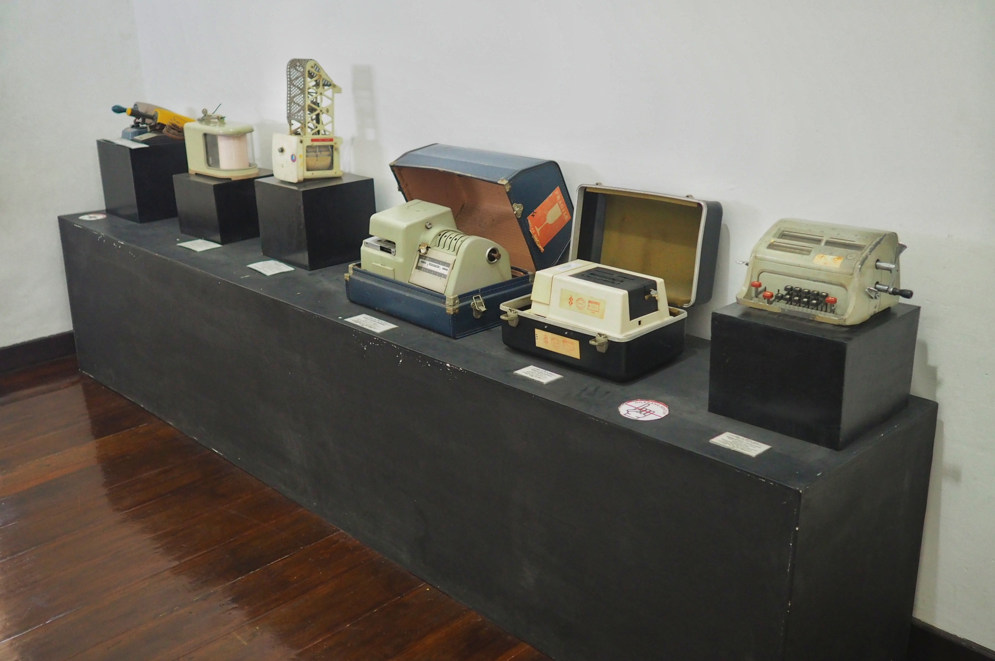 Some collections of The Plantation Museum of Indonesia in Medan, North Sumatra.